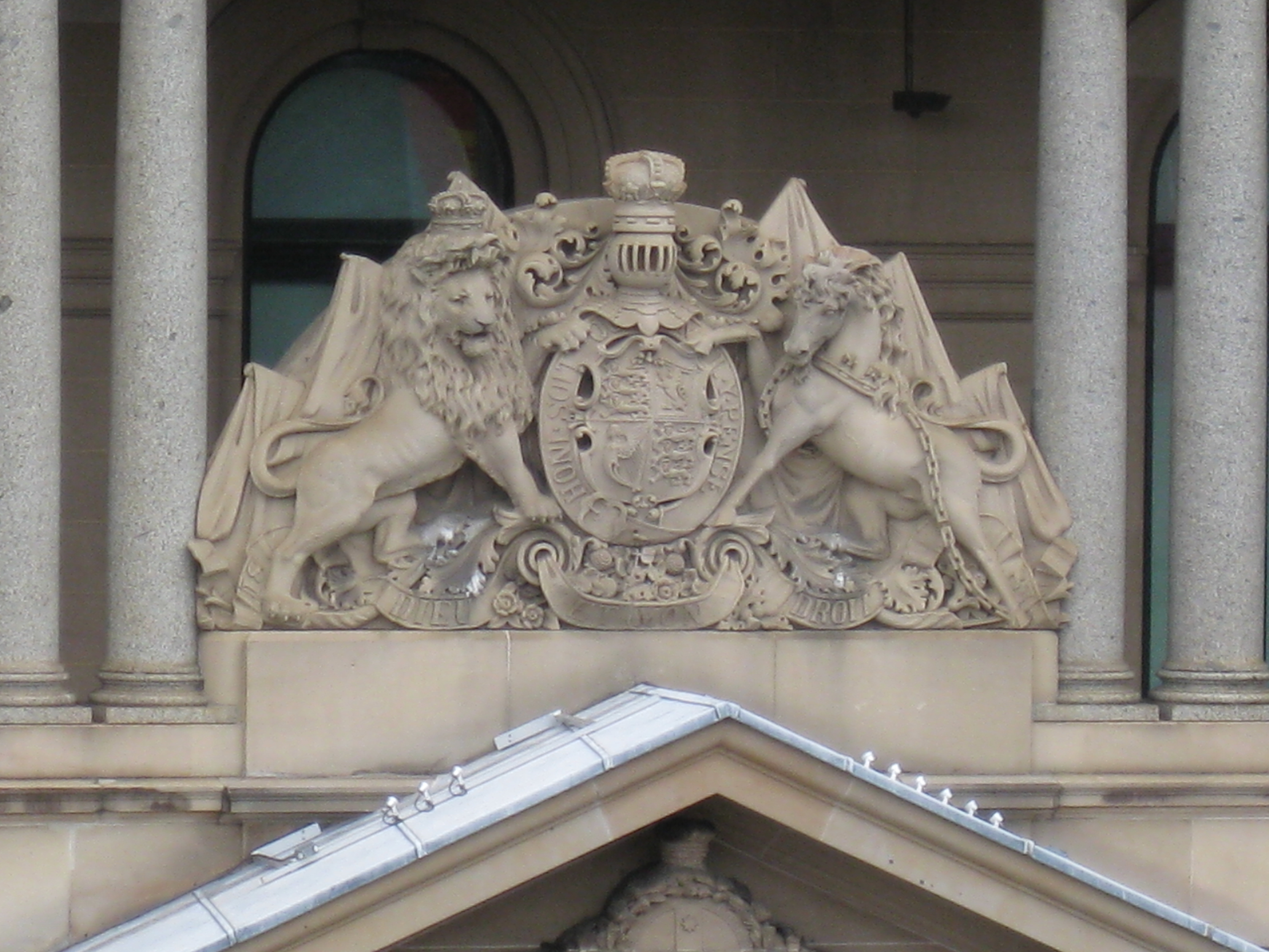 Customs House Emblem